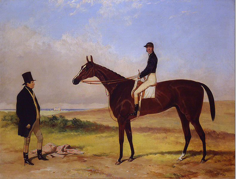 Harry Hall (1816 - 1882) West Australian, with Jockey Up & Trainer Oil on canvas 23 x 30 inches Signed, inscribed and dated 1853 West Australian was the first horse to win the Triple Crown in England. Winner: Derby, 1853 St. Leger, 1853 The Ascot Gold Cup, 1853